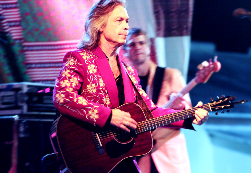 Jim Lauderdale at the 15th Annual Gram Parsons Guitar Pull Tribute & Festival in Waycross, GA